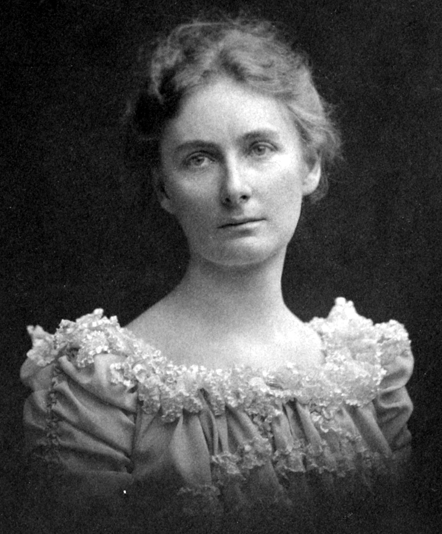 Description: Geologist Florence Bascom (1862-1945) was the first woman to earn a Ph.D. from Johns Hopkins University (1893) and, in 1894, the first woman elected to the Geological Society of America. She was Professor of Geology at Bryn Mawr College from 1895-1928, and active as a researcher with U.S. Geological Survey from 1896-1936. An authority on the crystalline rocks of the Piedmont, Bascom helped to train the majority of female geologists in the United States during the early 20th century.